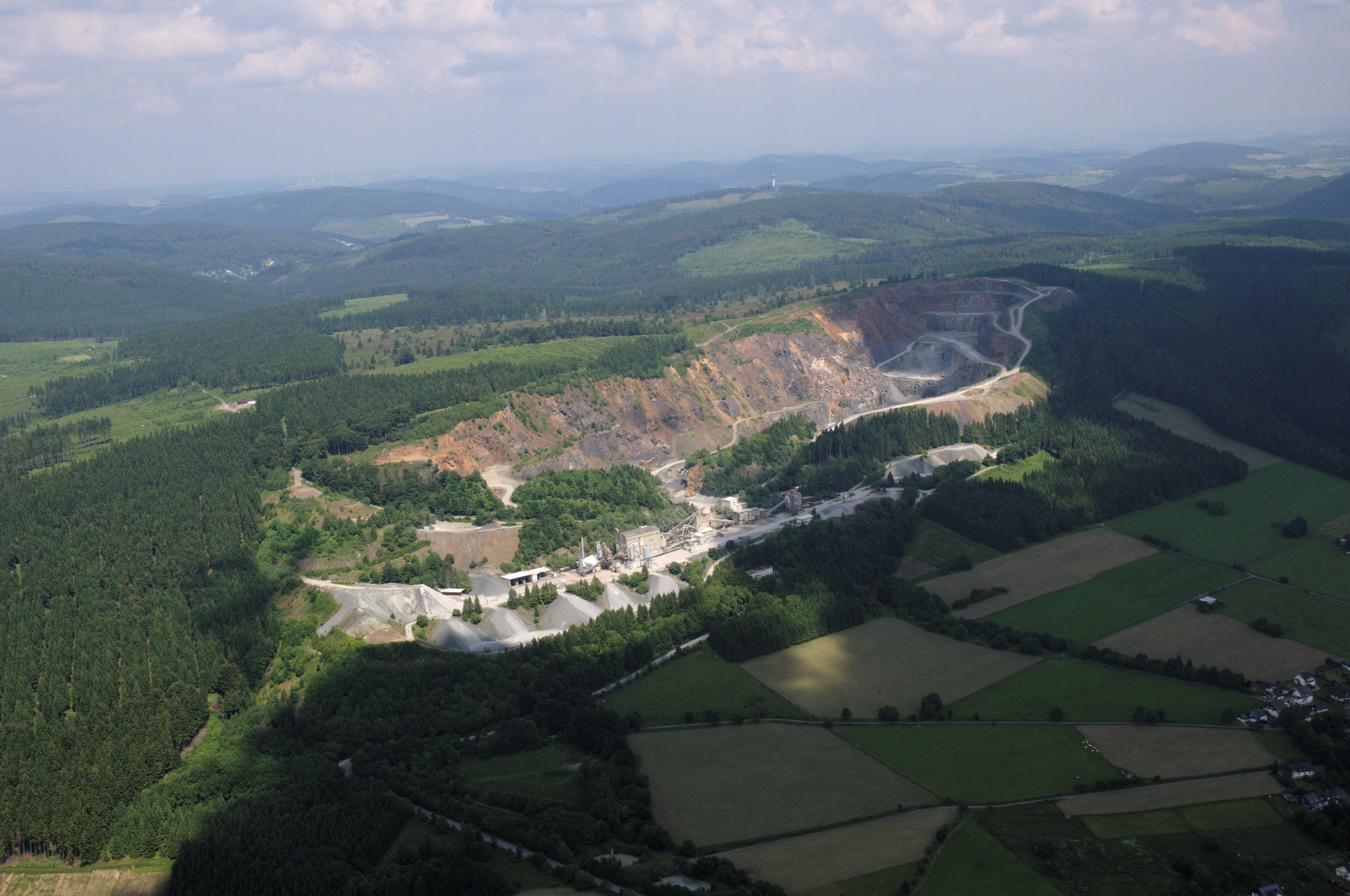 Fotoflug Sauerland-Ost, Winterberg-Hildfeld, MHI Steinbruch am Clemensberg The making of this document was supported by the Community-Budget of Wikimedia Germany.